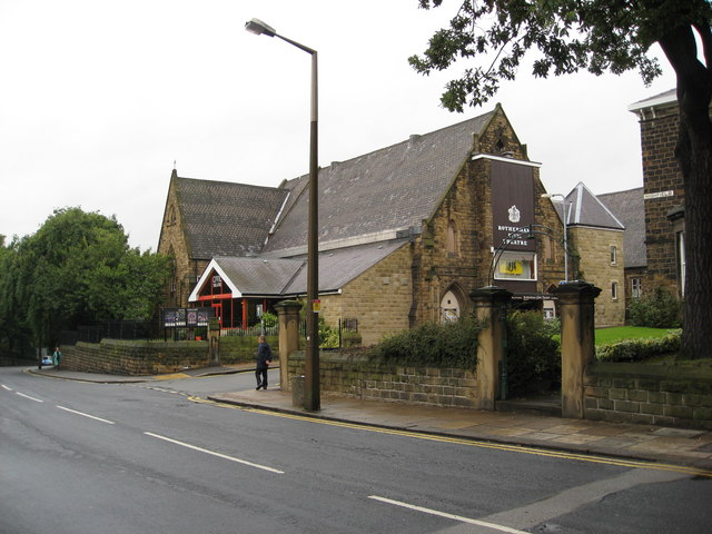 Rotherham - Civic Theatre on Doncaster Road